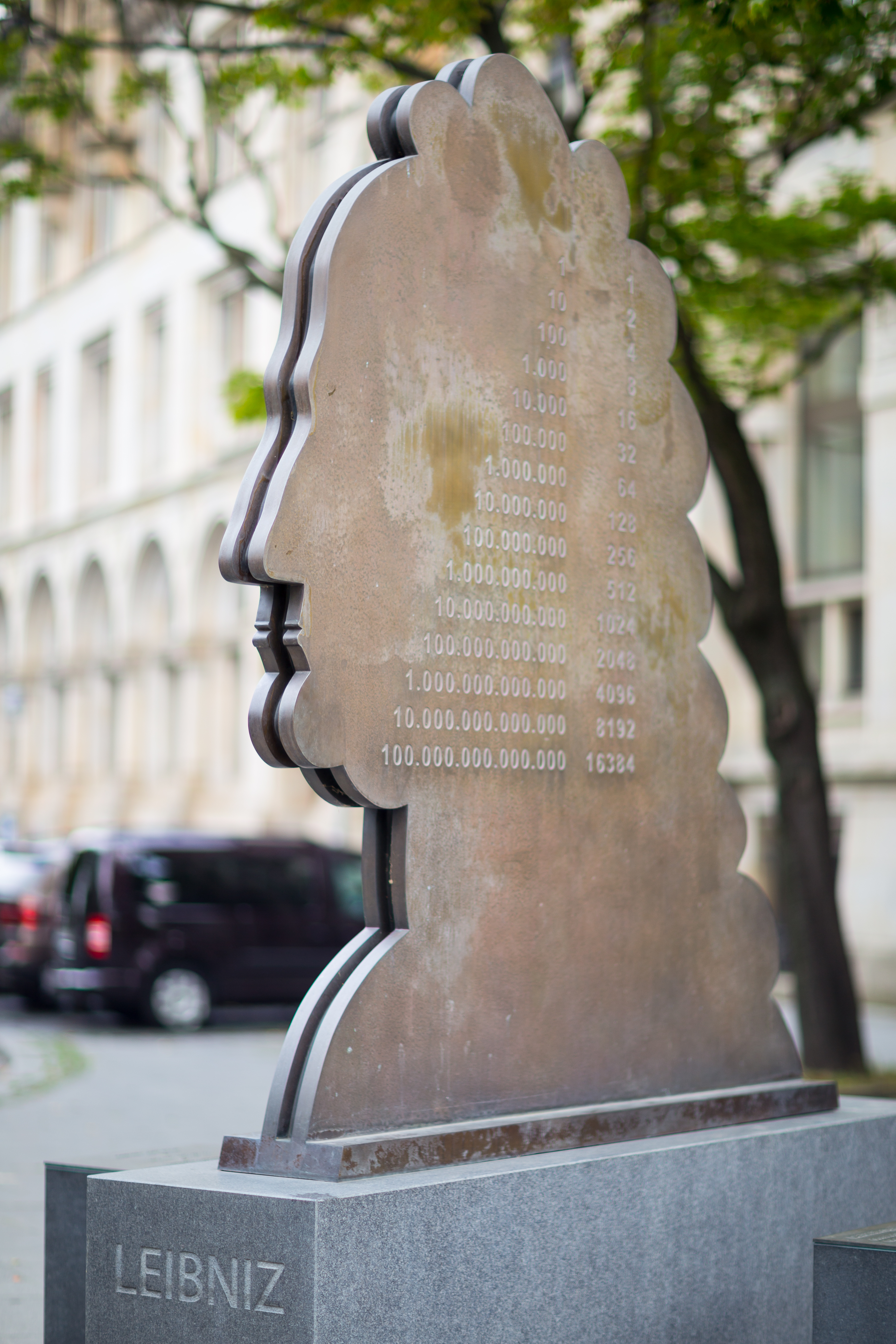 Leibniz monument by Stefan Schwerdtfeger located at Georgstrasse in Hanover, Germany.